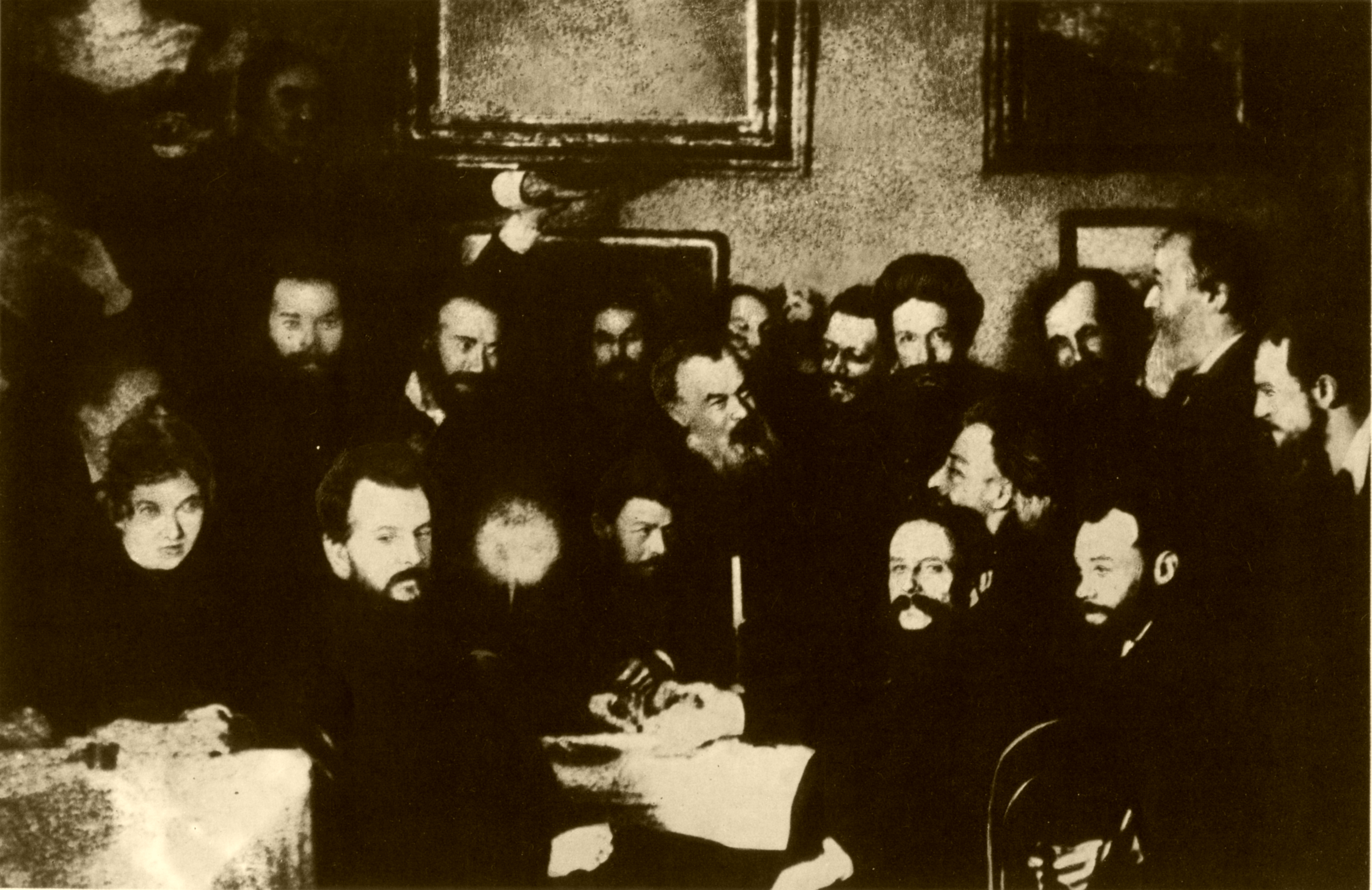 D. I. Mendeleev with known artist on his "Wednesdays". 1888